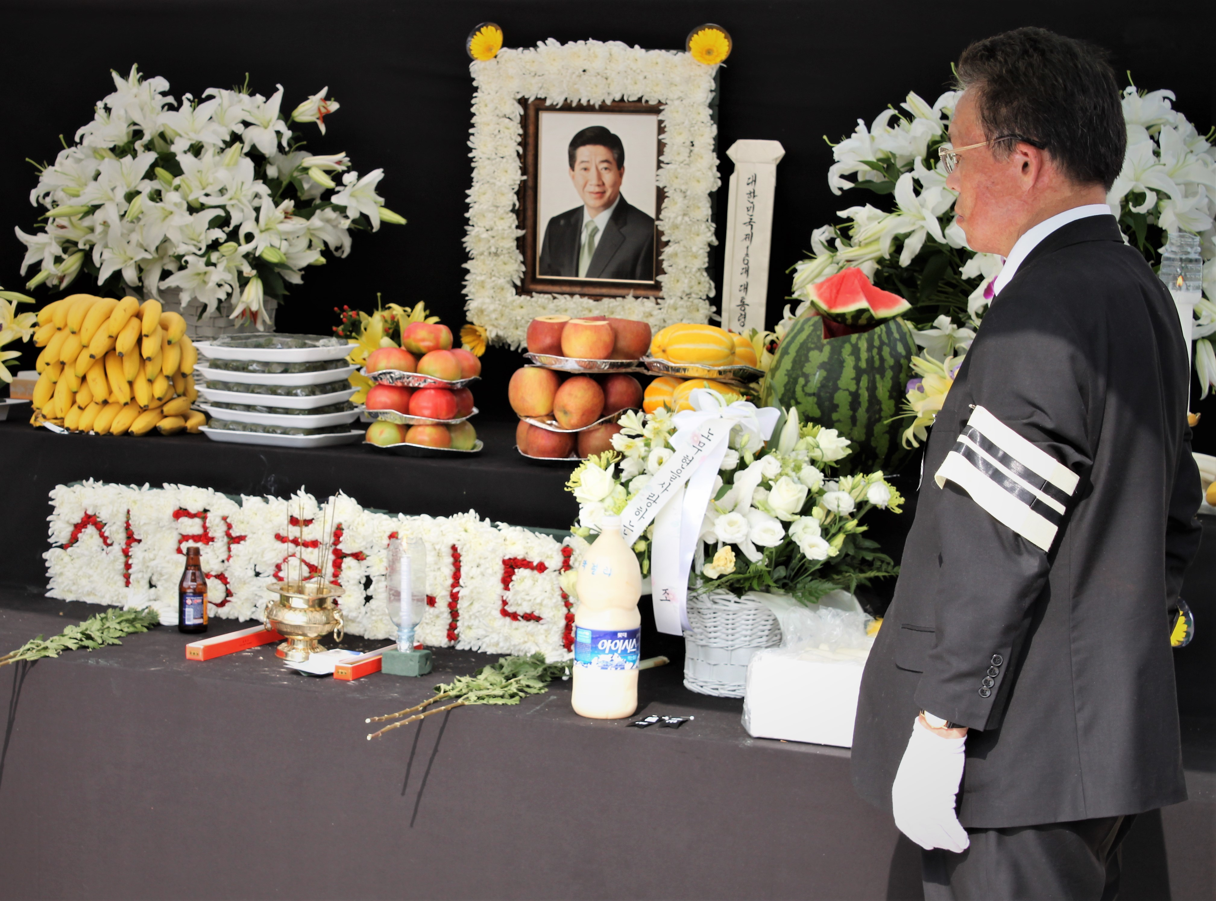 Sidewalk memorial for Former South Korean President Roh Moo-hyun set up across the street from Seoul City Hall on July 10th, 2009. Photo by Peter Rimar.